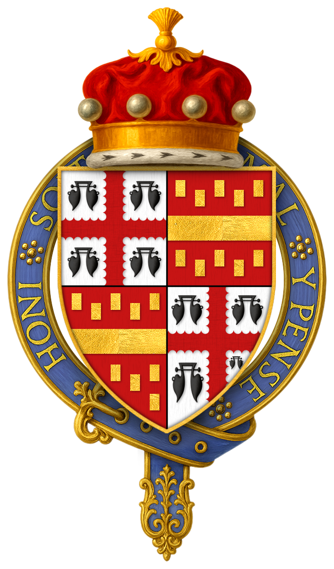 Sir Henry Bourchier, 5th Baron Bourchier, KG HOPE, W. H. St. John, The Stall Plates of the Knights of the Order of the Garter 1348 – 1485: A Series of Ninety Full-Sized Coloured Facsimiles with Descriptive Notes and Historical Introductions, Westminster: Archibald Constable and Company LTD, 1901. “ Sir Henry Bourcheir, Lord Bourchier, Count of Eu, and Earl of Essex… bearing the arms, quarterly: 1 and 4, silver a cross engrailed gules and four water bougets sable (for Bourchier); 2 and 3, gules billety and a fess gold (for Louvain)... ” Bourchier's stall plate remains intact within the thirteenth stall, on the south side of the chapel.